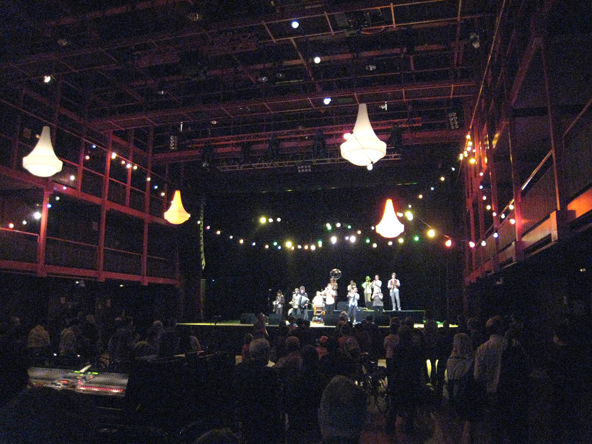 A concert taking place in the Ancienne Belgique (on car-free Sunday, when bicycles are allowed inside the main hall).